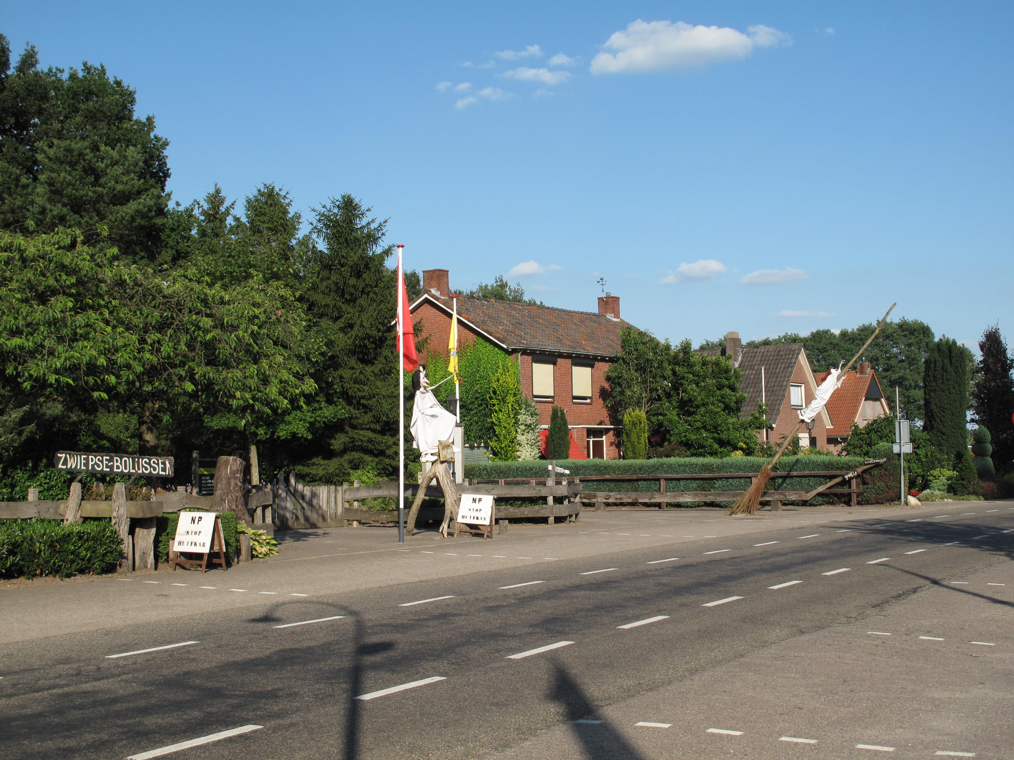 Zwiep, road house de Witte Wieven